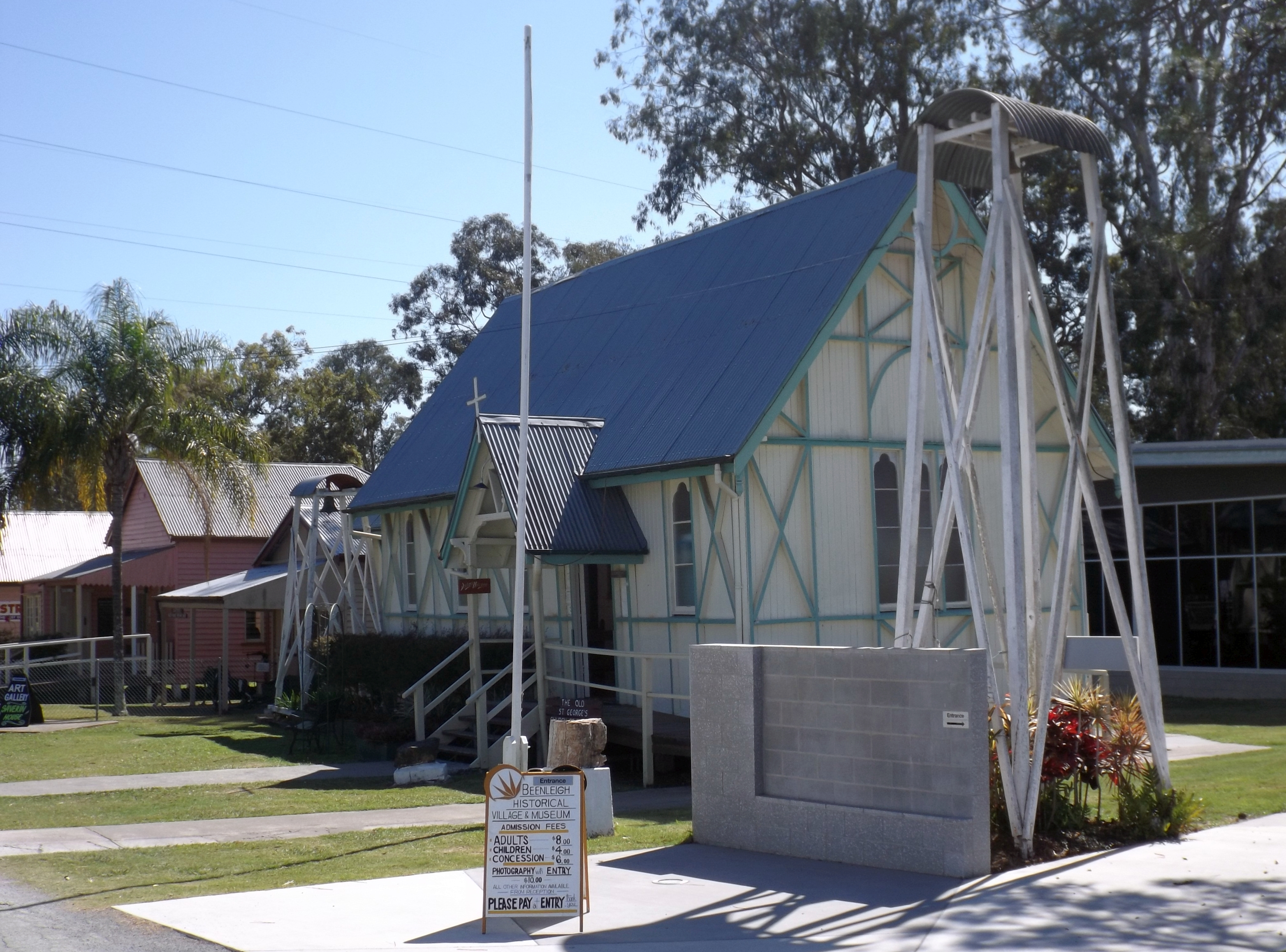 Photo of George's Anglican Church at the Beenleigh Historical Village in Beenleigh, Logan City, Queensland, Australia.